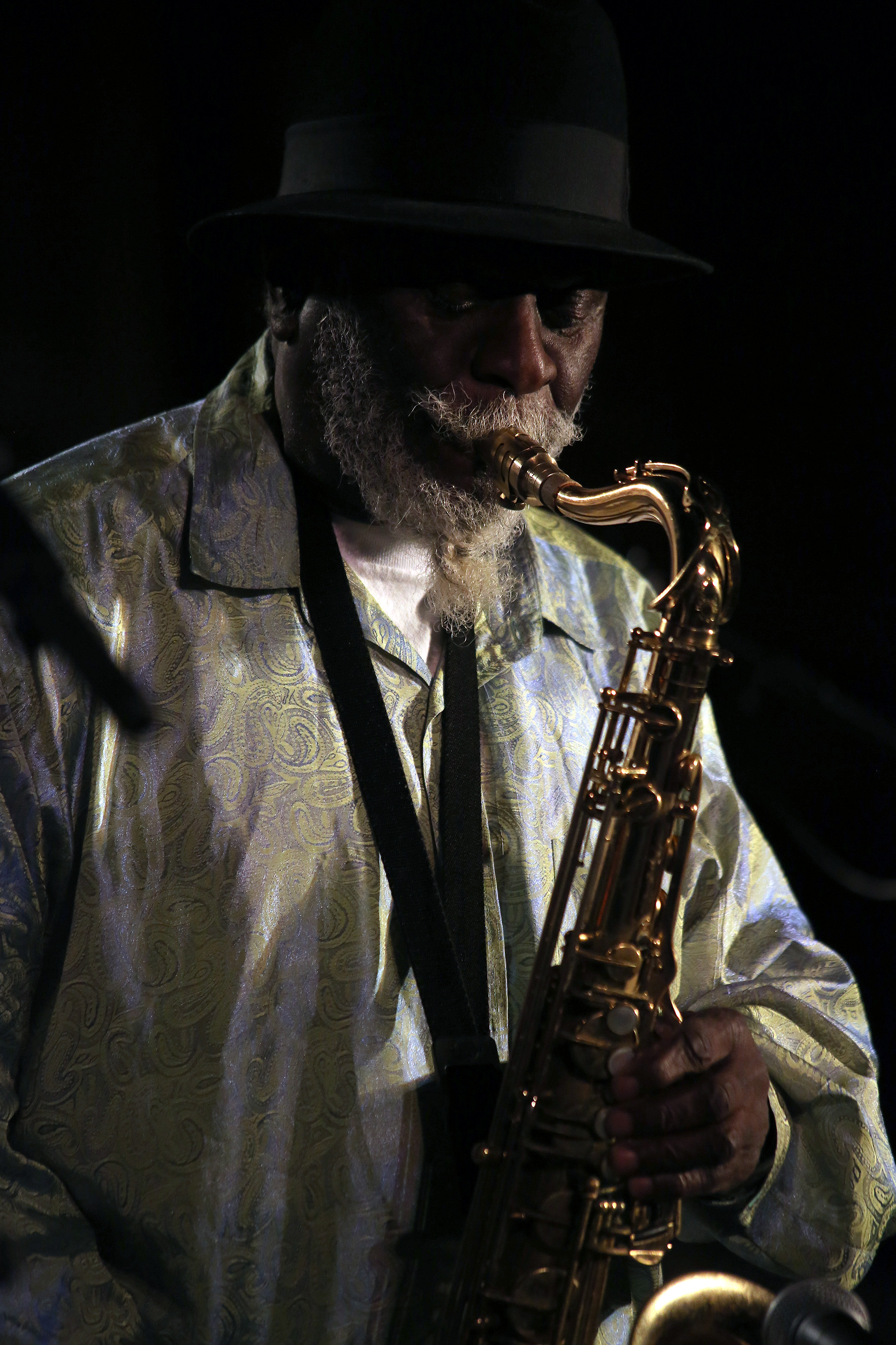 Pharoah Sanders (ts), William Henderson (p), Oli Hayhurst (b), Gene Calderazzo (dr), Dwight Trible (voc), Howard Johnson (tub) - INNtöne Jazzfestival (Diersbach, Upper Austria)